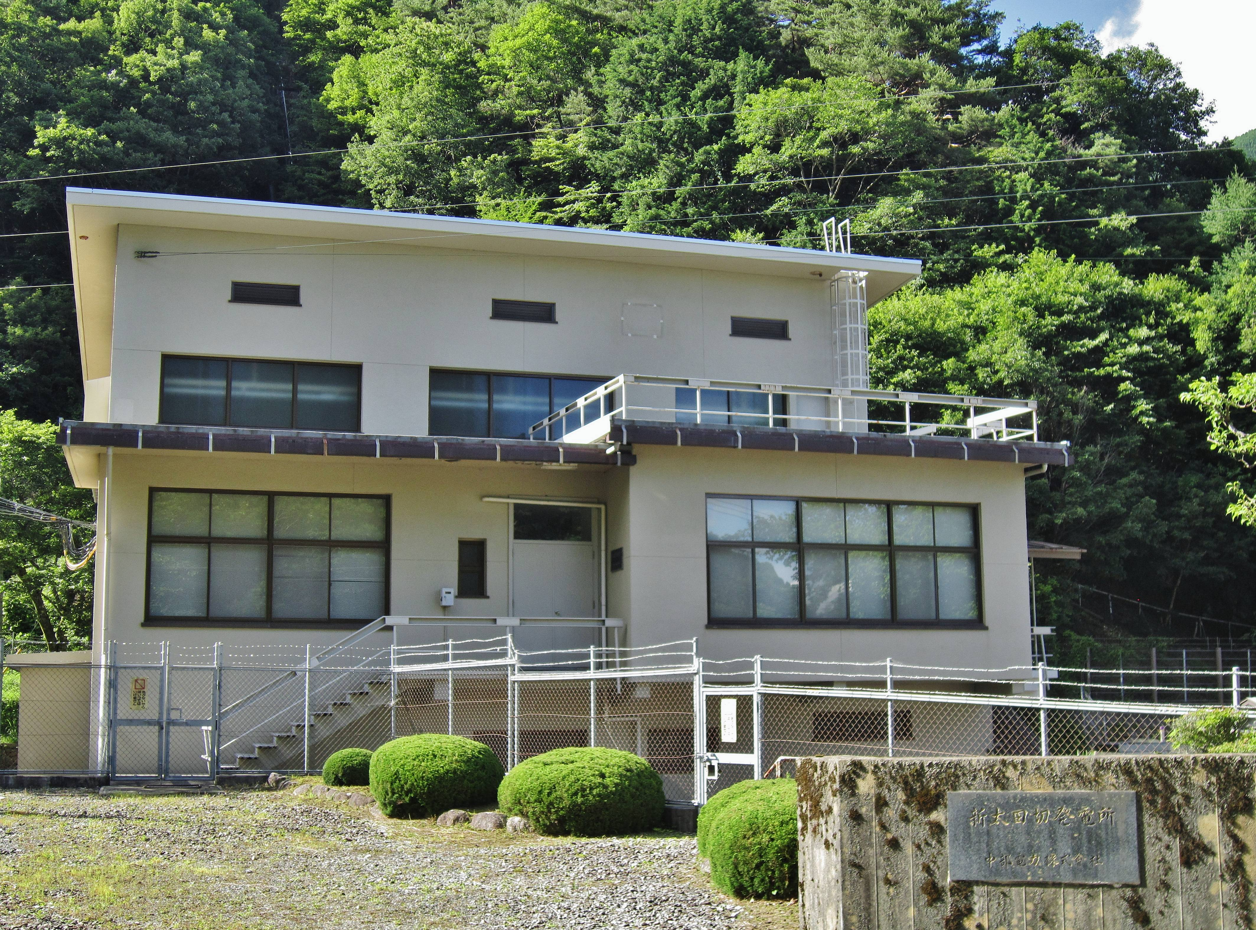 Shin'ōtagiri power station.